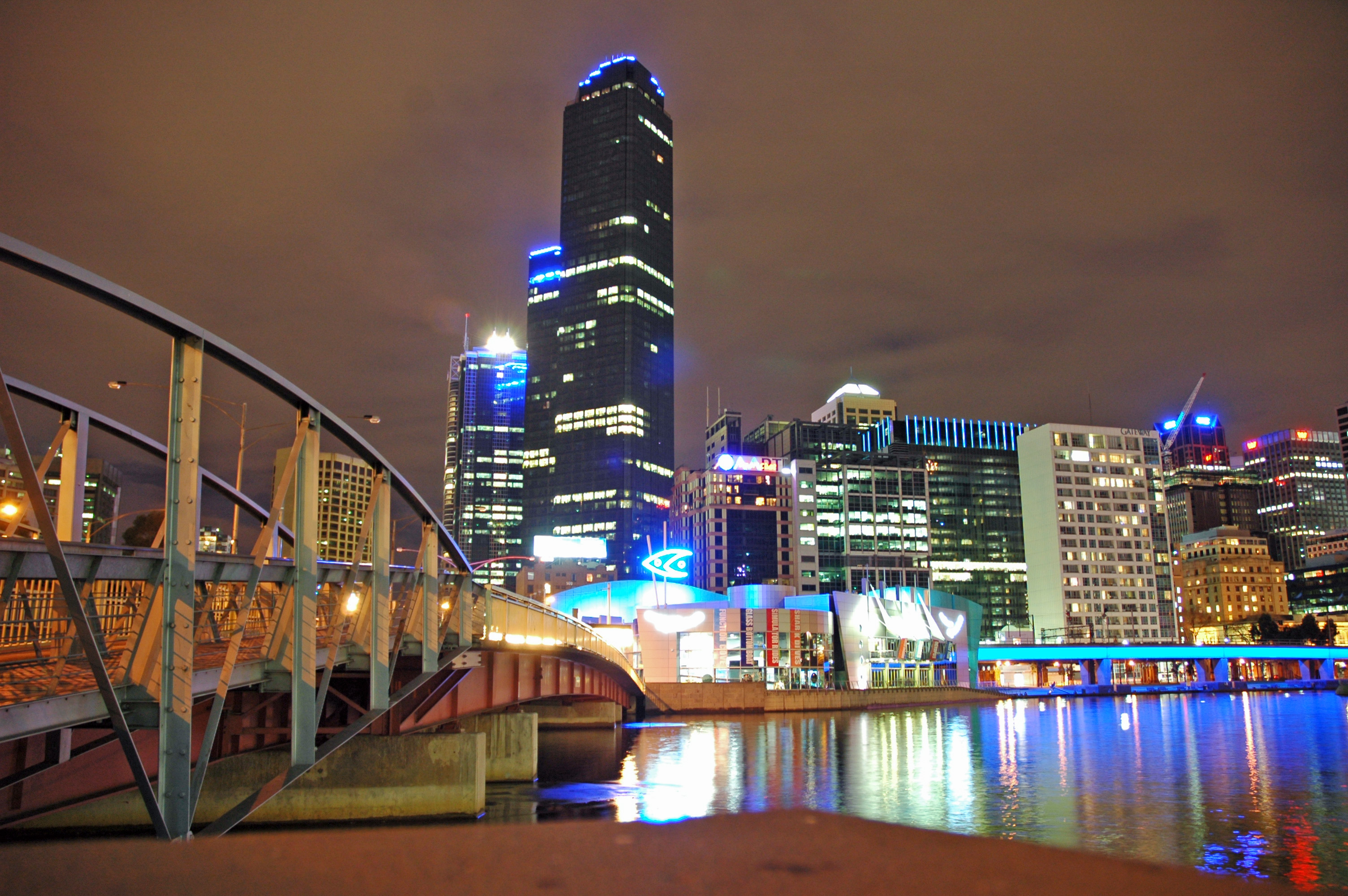 The Rialto Towers Building at night looking from Crown Southbank.